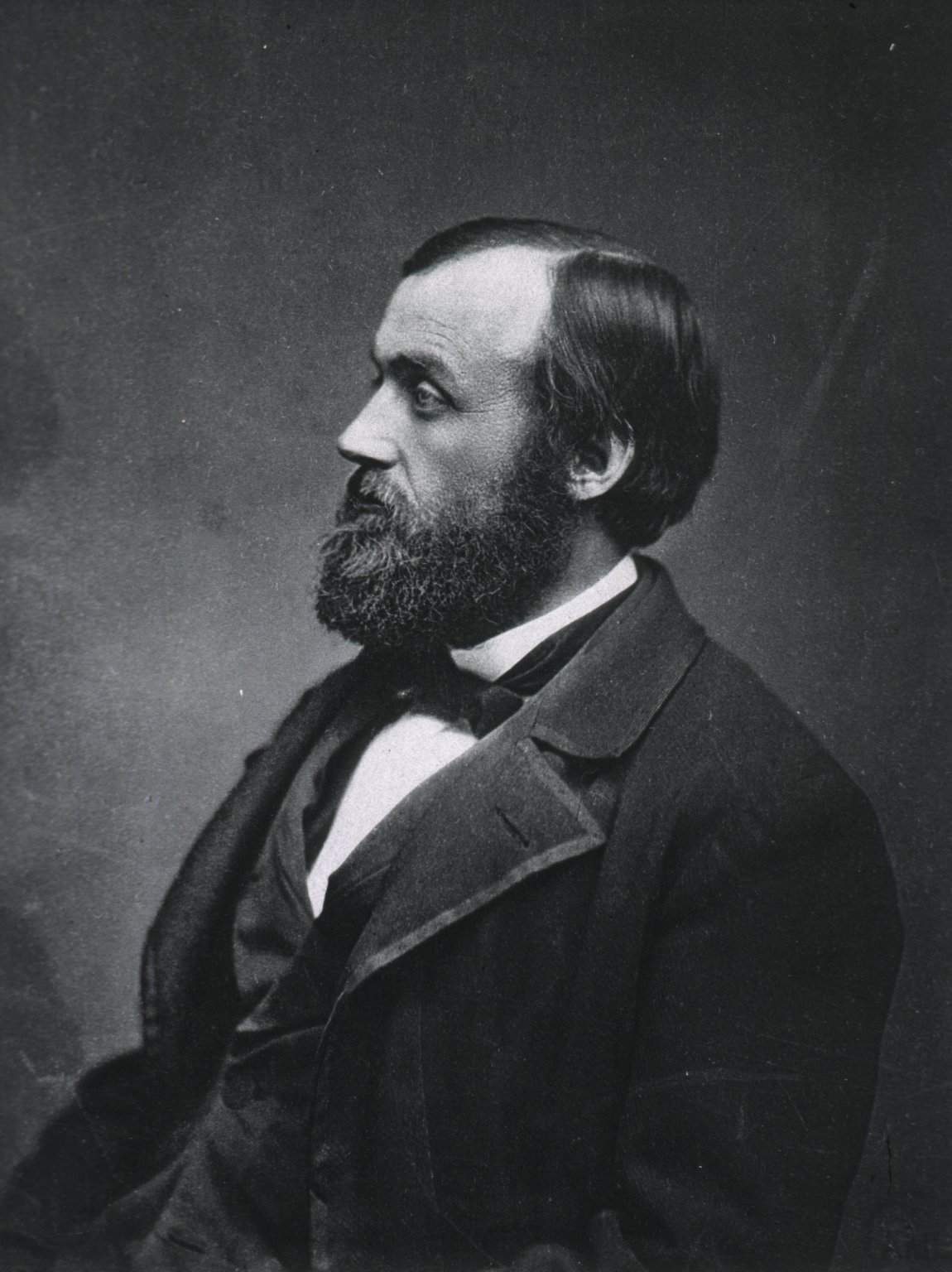 Robert T. Edes (1838-1923)